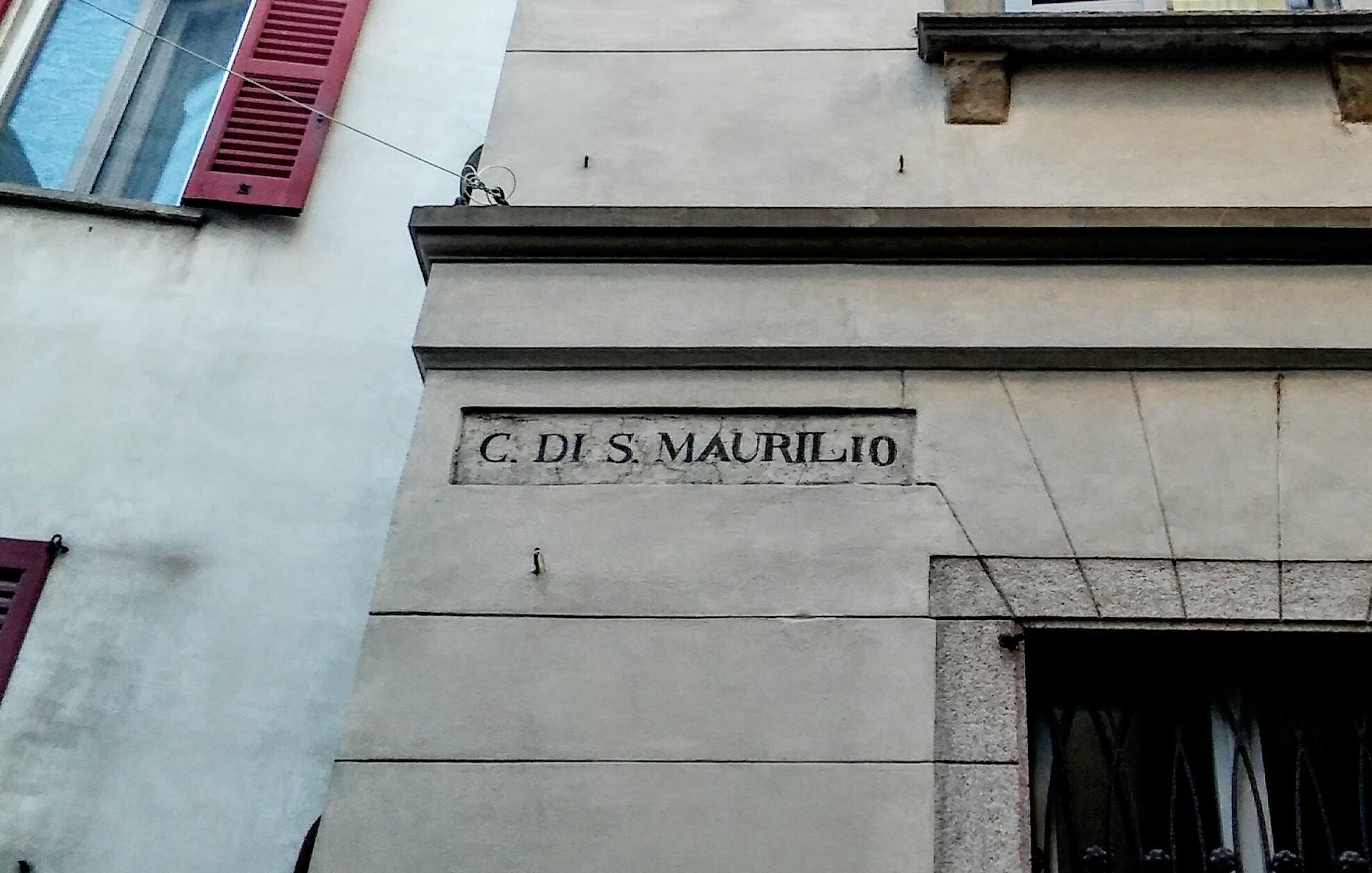 Ancient austrian street sign in Milan, "contrada di San Maurilio"